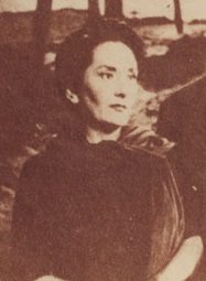 Blanca Tapia- actriz